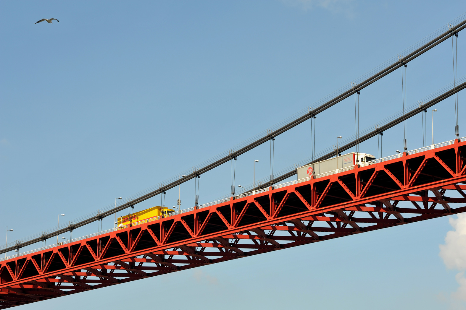 Pont de Tancarville over the Seine river; Seine-Maritime and Calvados, France.